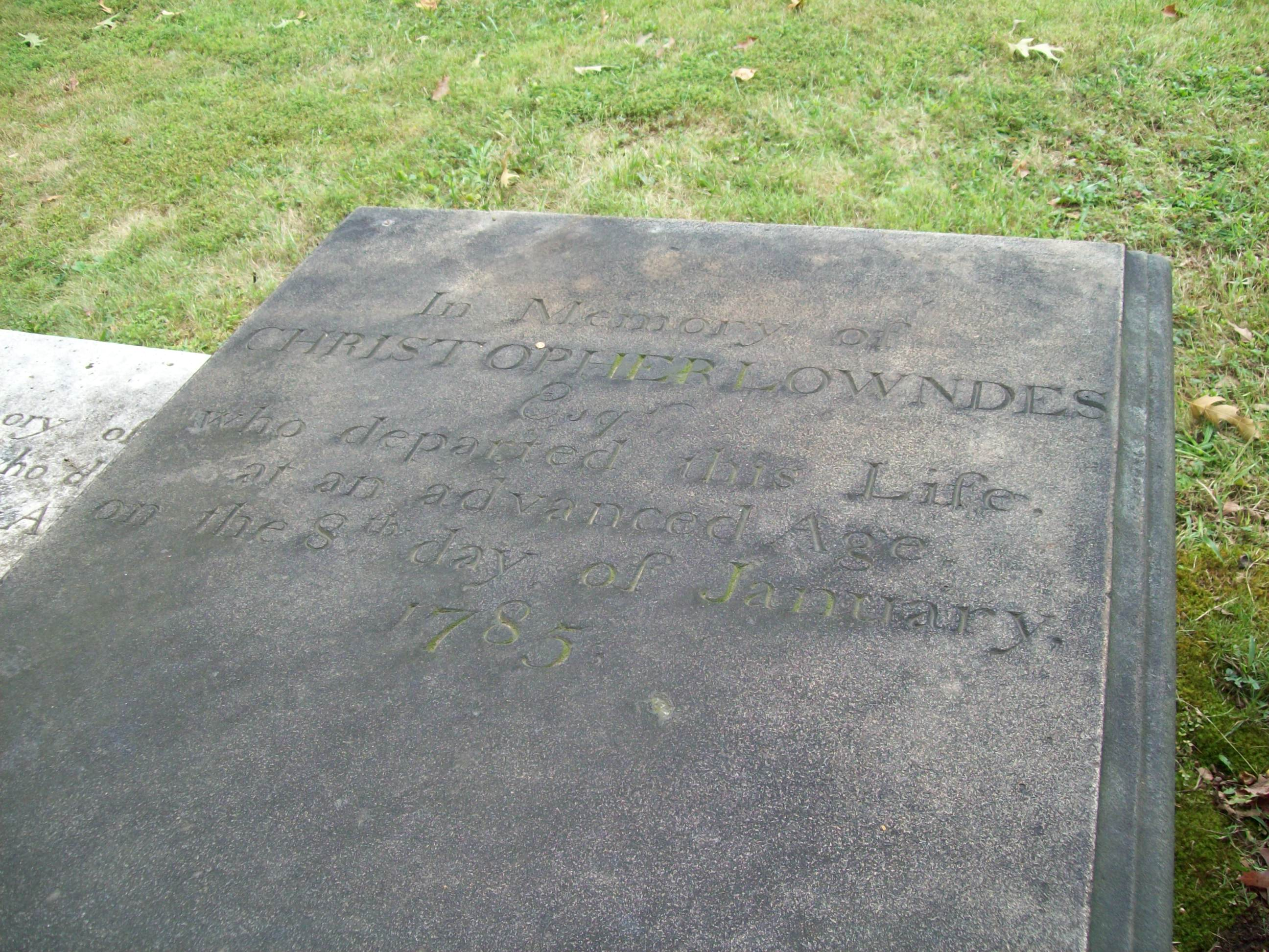 Grave of Christopher Lowndes, St. Matthews Church, Seat Pleasant, MD